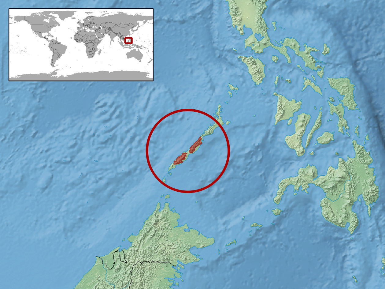 geographic distribution of Cyrtodactylus redimiculus (Native: Philippines)